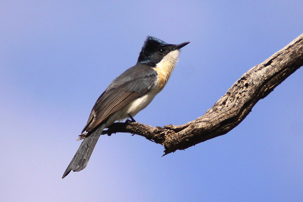 A Restless Flycatcher perches on a branch watching for insects.